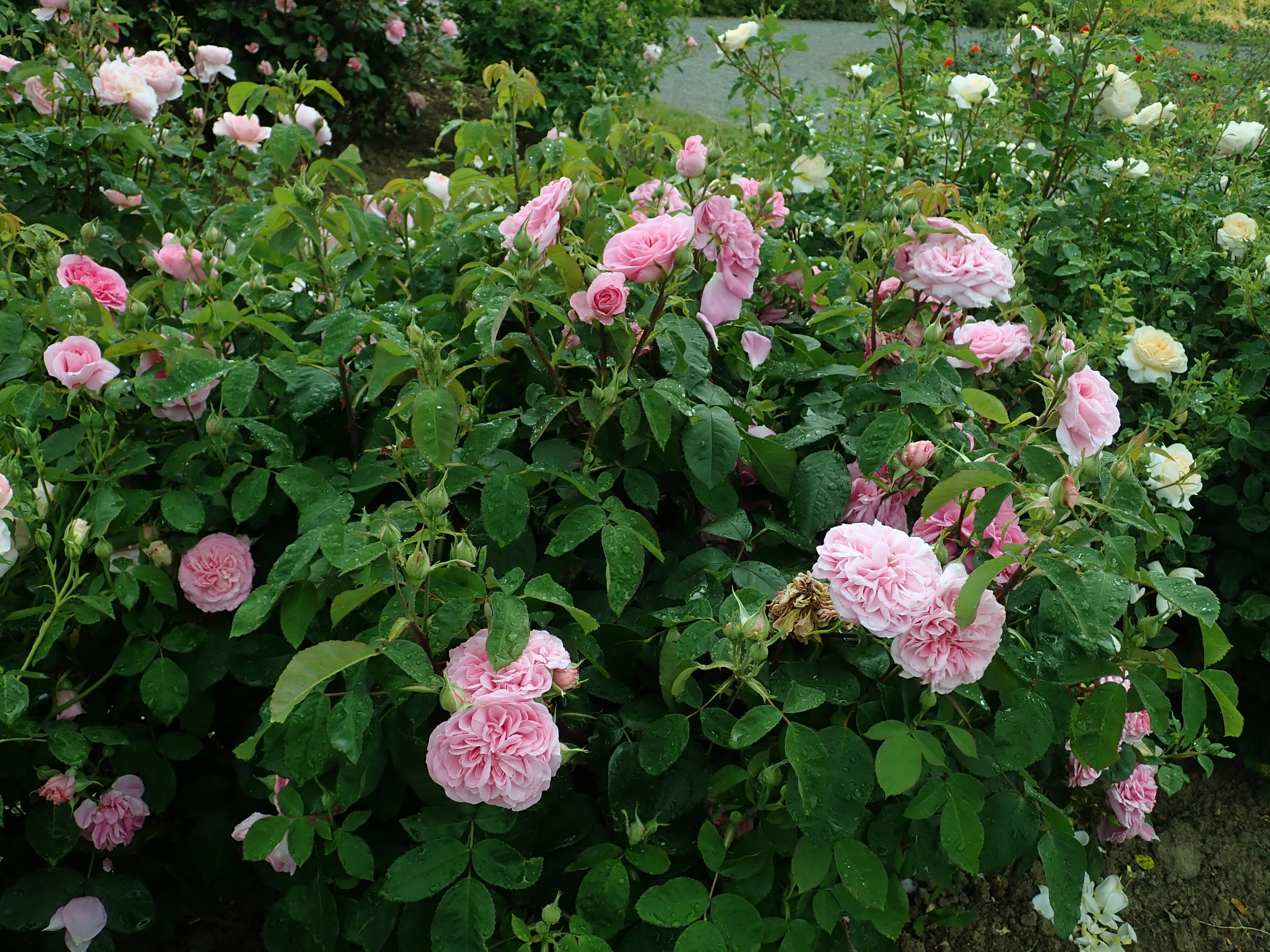 Rosa ‘Gertrude Jekyll’ (David Austin, 1986), Europa-Rosarium Sangerhausen.